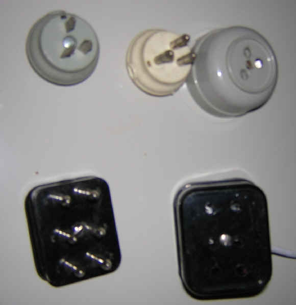 Picture of Norwegian telephone plugs and sockets